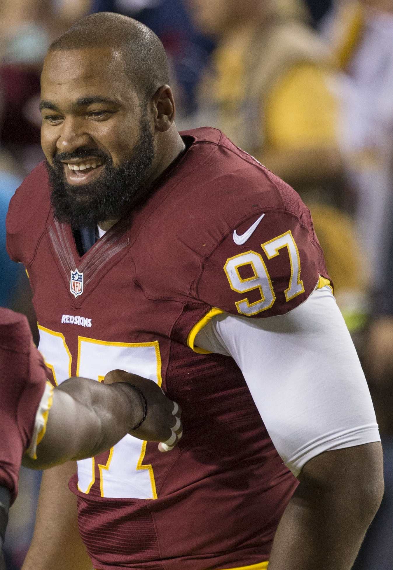 Giants at Redskins 9/25/14 - Wash. Redskins defensive end Jason Hatcher.